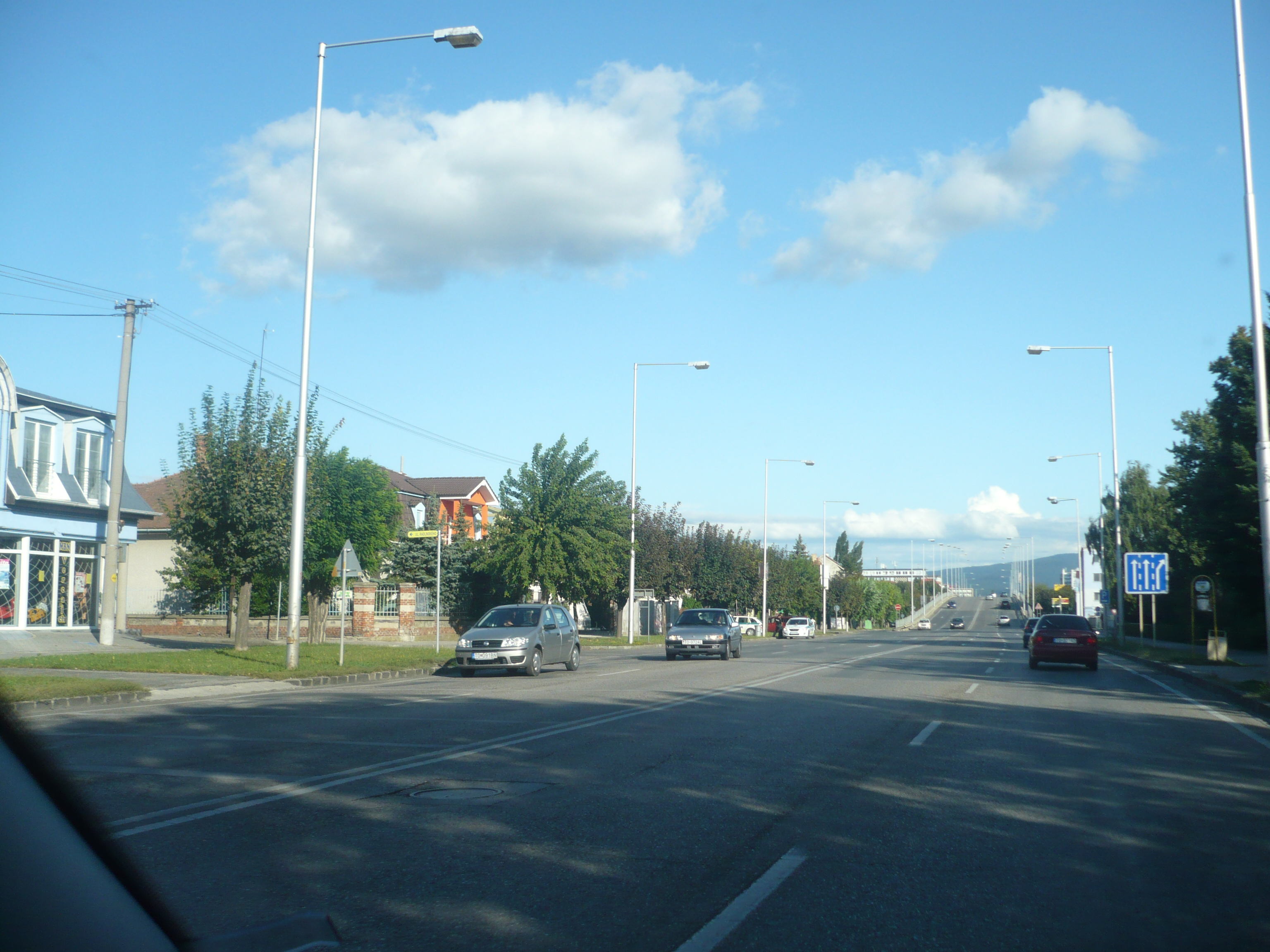 Drive throught the city center